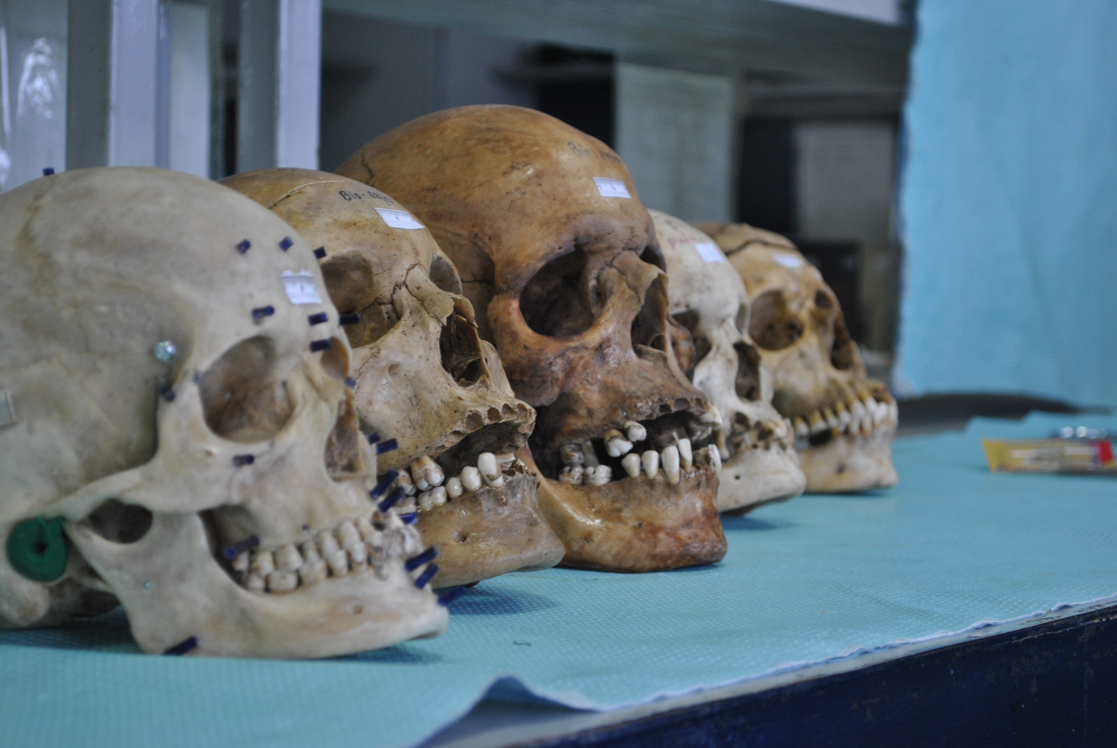 Every skull tells a different story !!!